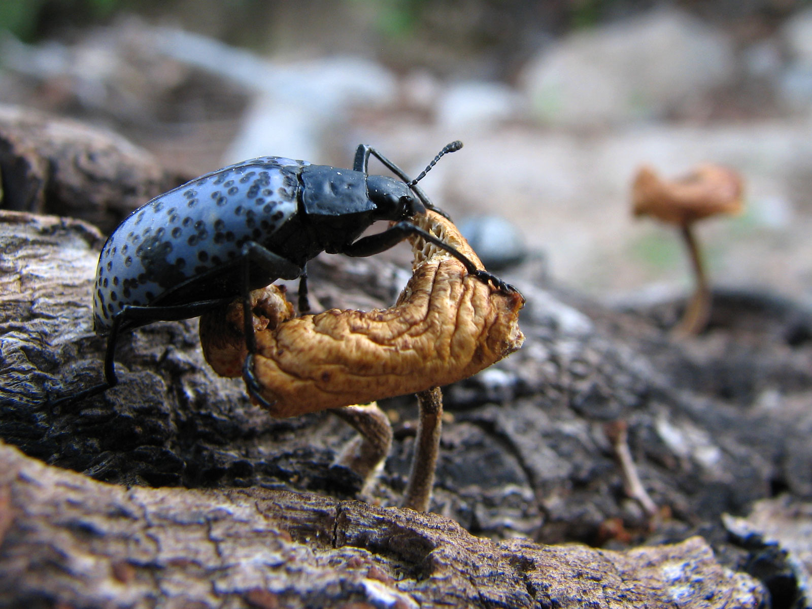 Pleasing blue fungus beetle, Cypherotylus californicus munching on a dry mushroom. Molino Basin, Santa Catalina Mountains, Pima County, Arizona, USA. 9 August 2008.